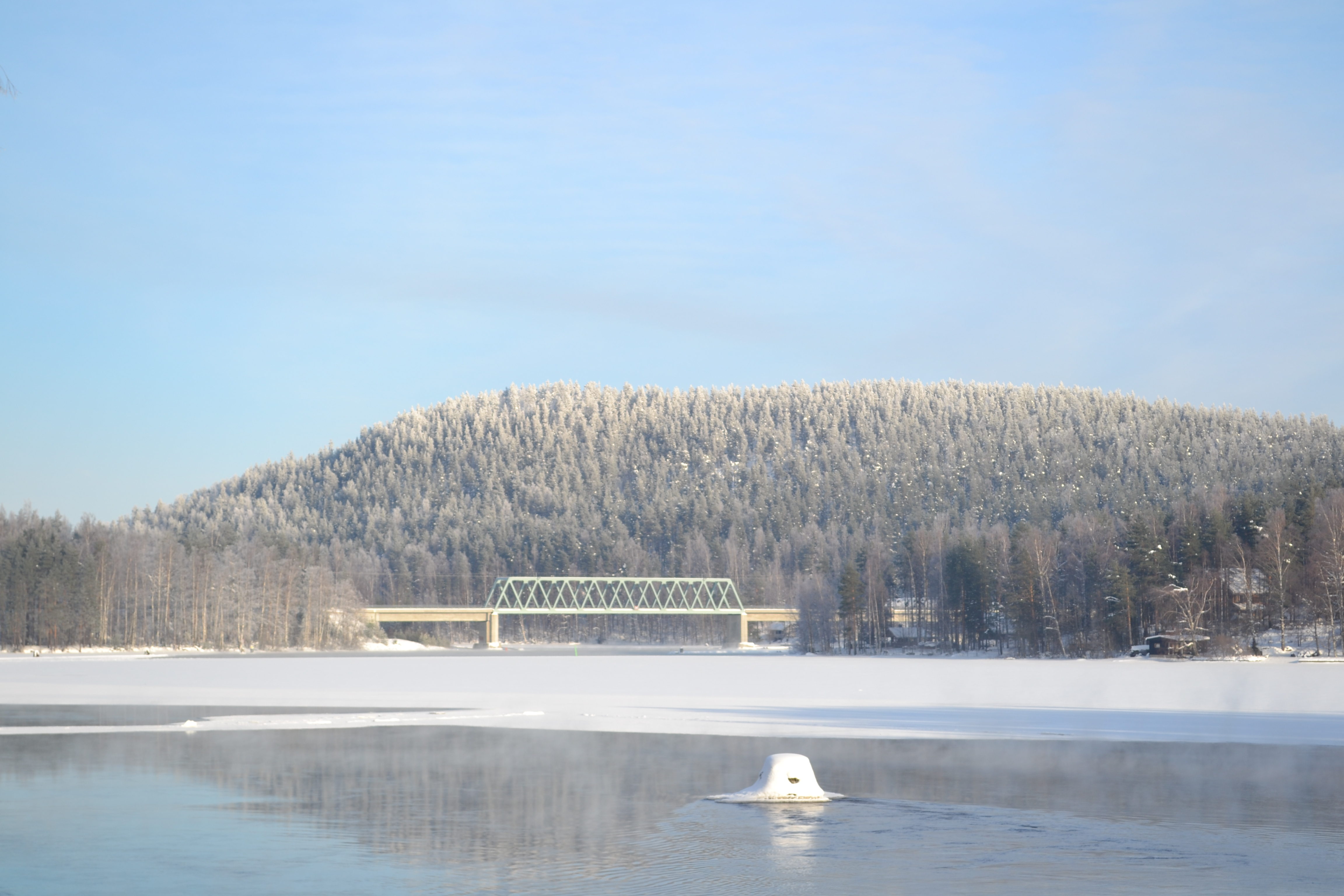 Mountain Koskenvuori in the district of Kanavuori in Jyväskylä.